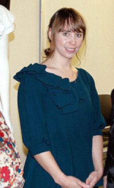 Leanne Marshall, Project Runway Winner, Visits the Art Institute of Portland Leanne Marshall, winner of Project Runway, visits the Art Institute of Portland for an informal presentation after her PR win and move to New York City. Students asked questions and saw examples of her winning designs. Find out more about The Art Institute of Portland on our website: Photo: Lulu Hoeller